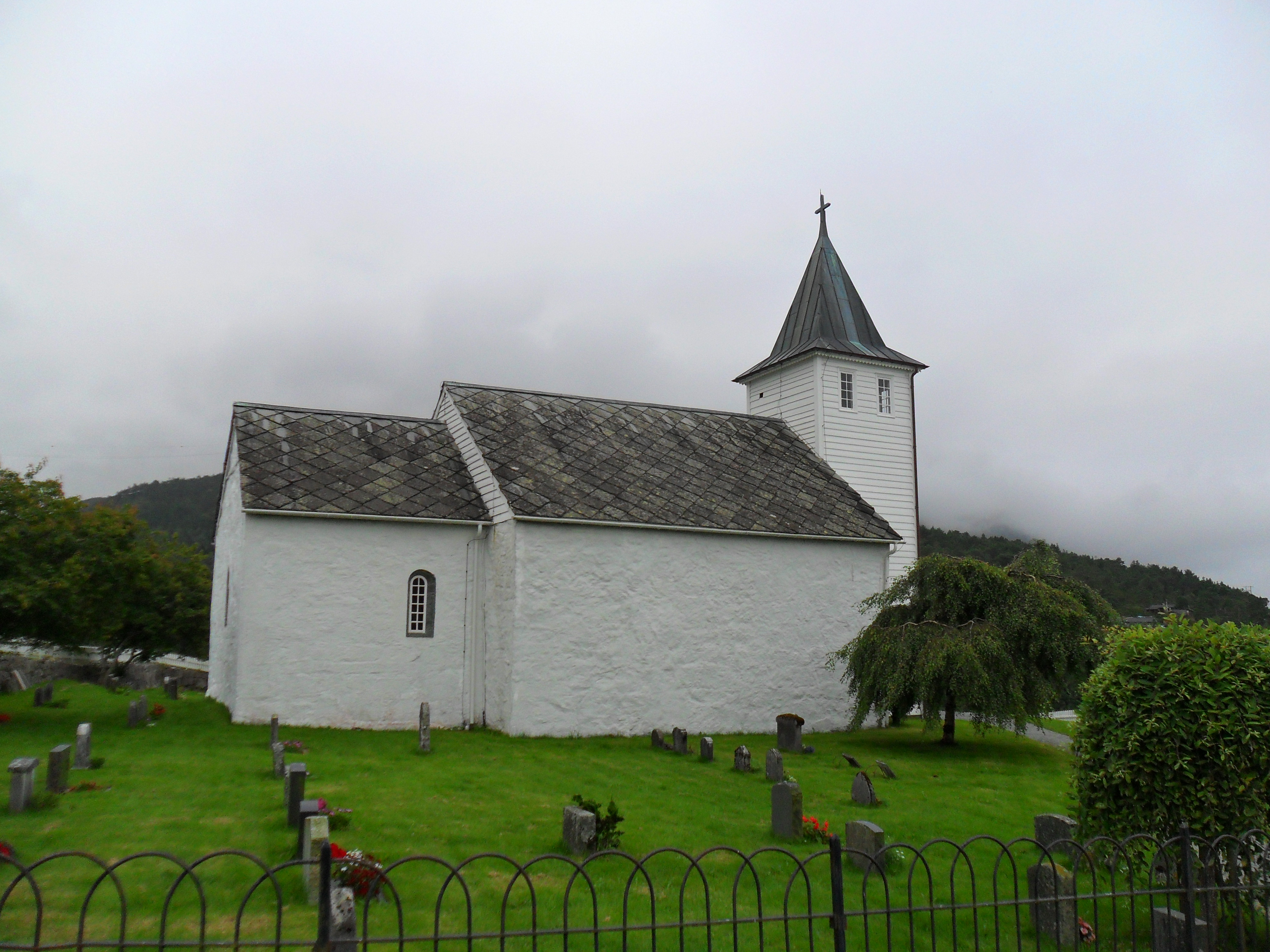 Ænes church in Kvinnherad county, Hordaland, Norway